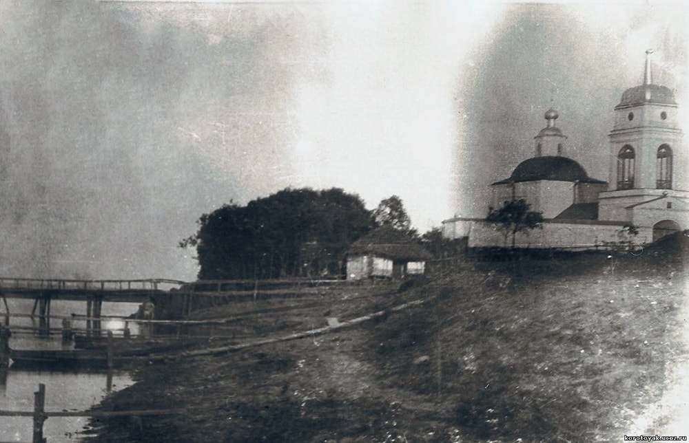 Korotoyaksky monastery